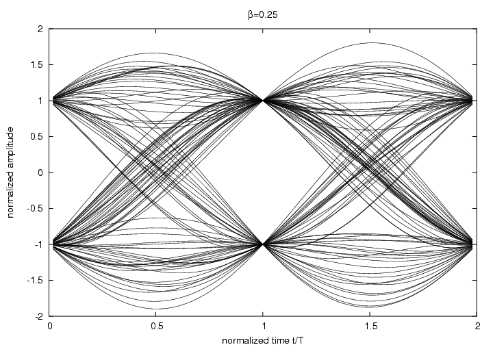 Eye diagram of raised-consine filter with roll-off factor 0.25